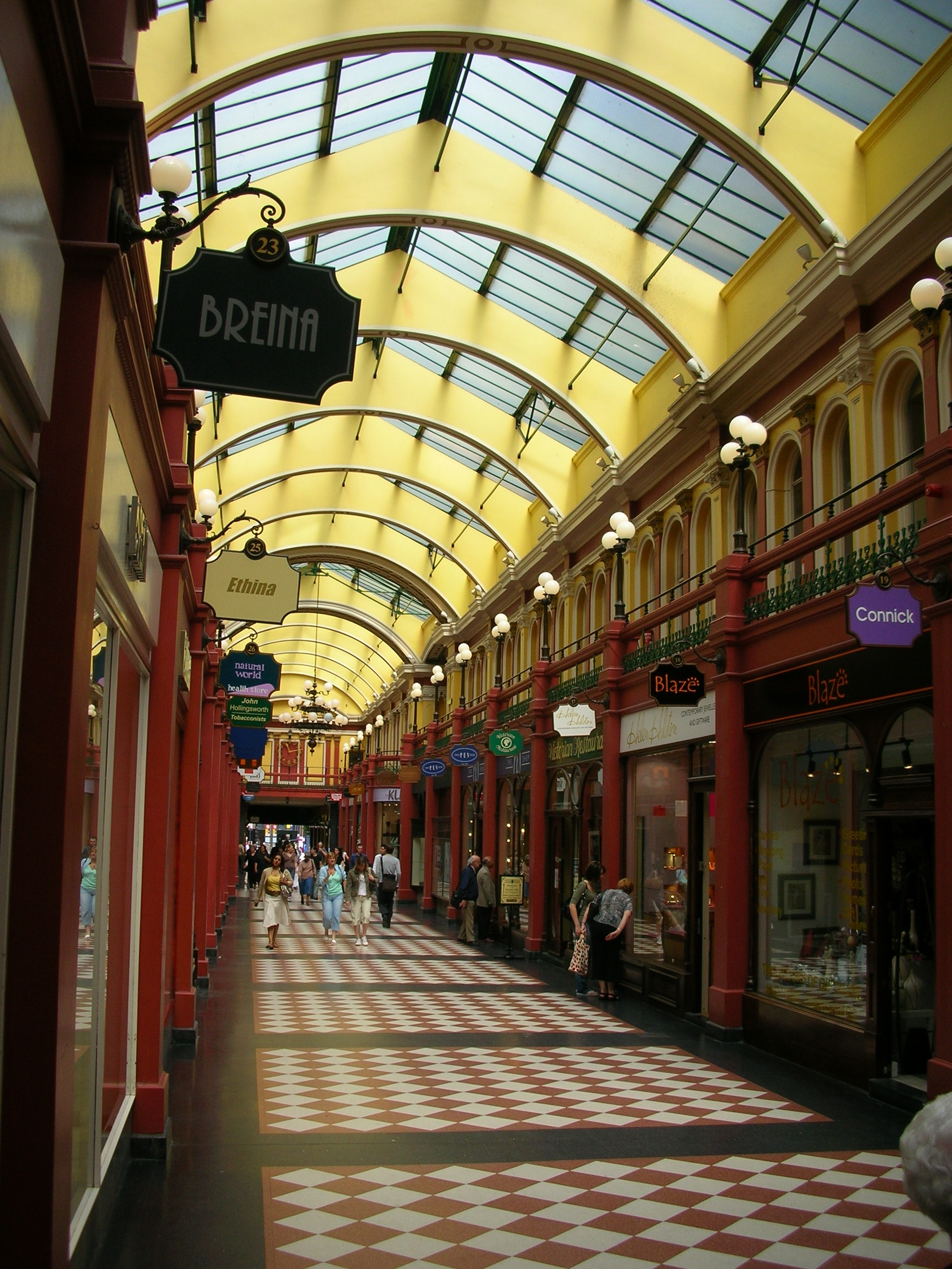 Great Western Arcade, Birmingham, England. Photographed by me. Oosoom